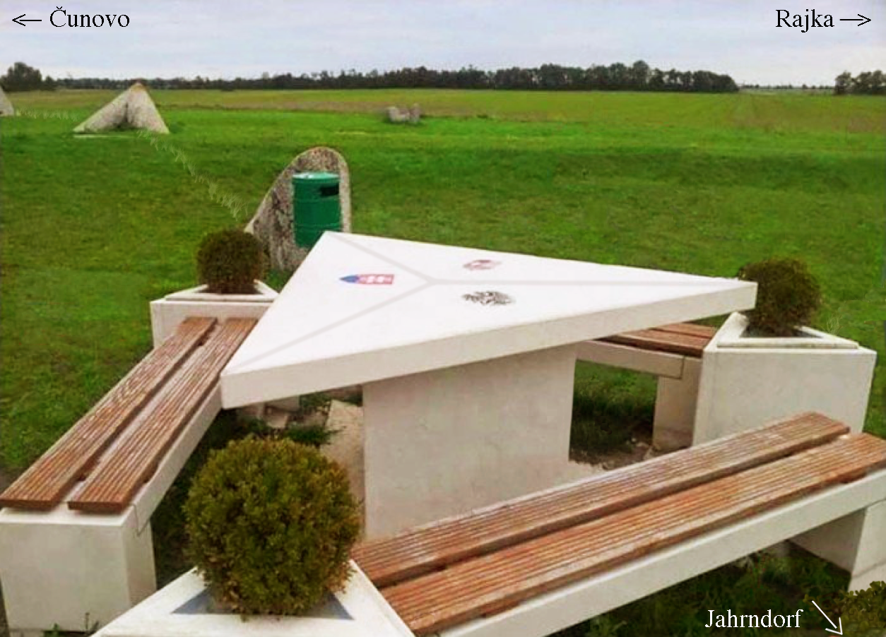 Boundary stone (picnic table) - Tripoint Austria-Hungary-Slovakia